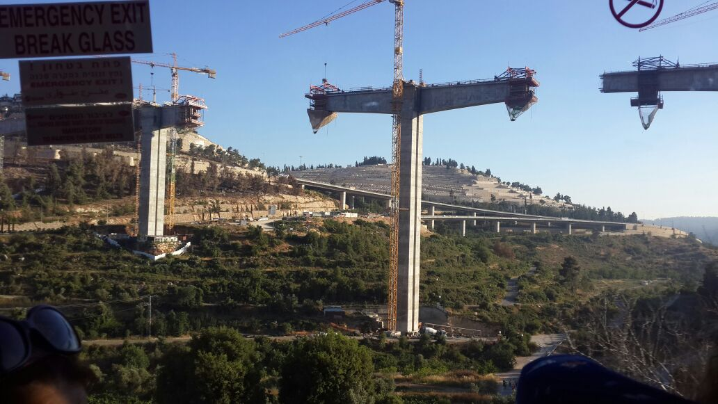 Geography of Israel, Jerusalem, Cedars Valley (Emek HaArazim)